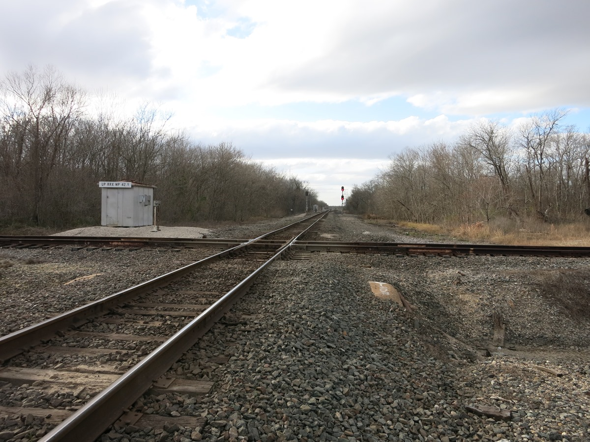 Photo shows a diamond cross near where Farm to Market Road 521 crosses the BNSF Railway in Arcola, Texas. The tracks running from left to right once belonged to the Missouri Pacific Railroad. The view is toward the west along the BNSF right-of-way.